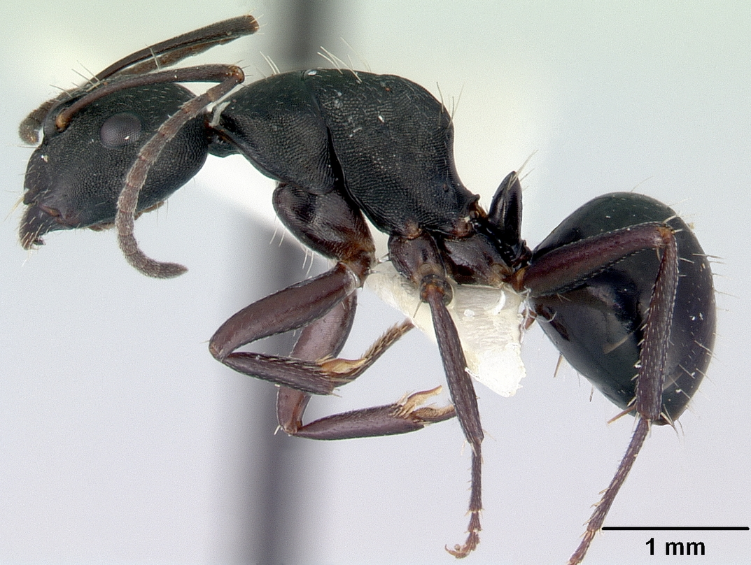 Profile view of ant Camponotus rudis specimen casent0172129.